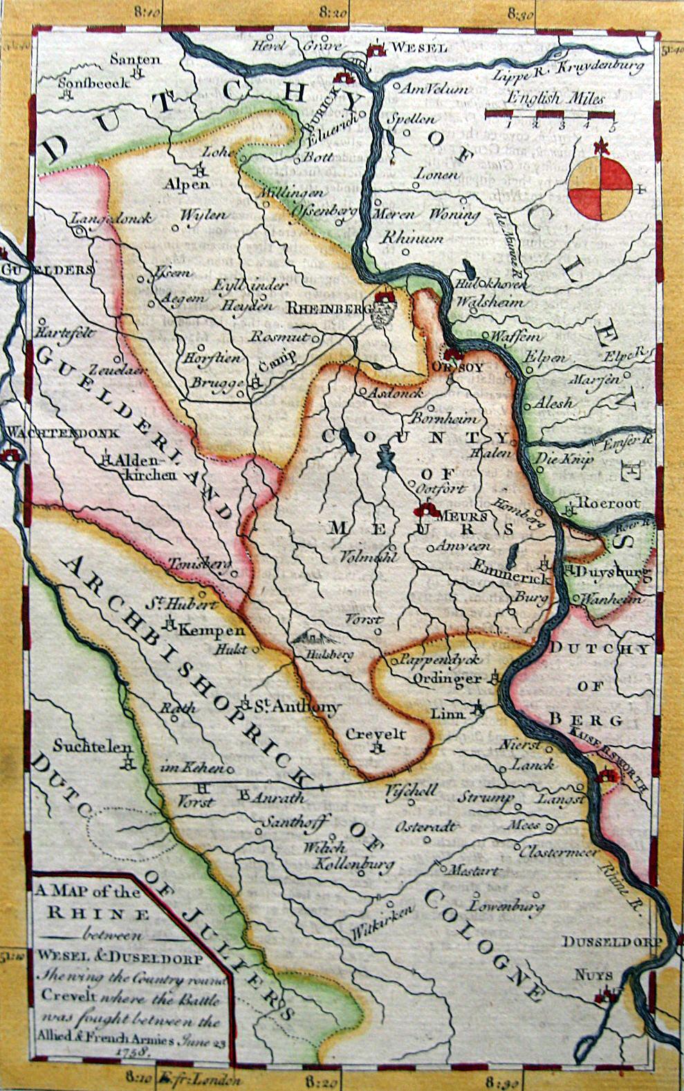 Area around Krefeld. Readers of The Gentleman's Magazine and The London Magazine were kept informed of the latest developments in the war with the support of maps and drawings. This map was colourized at a much later date.